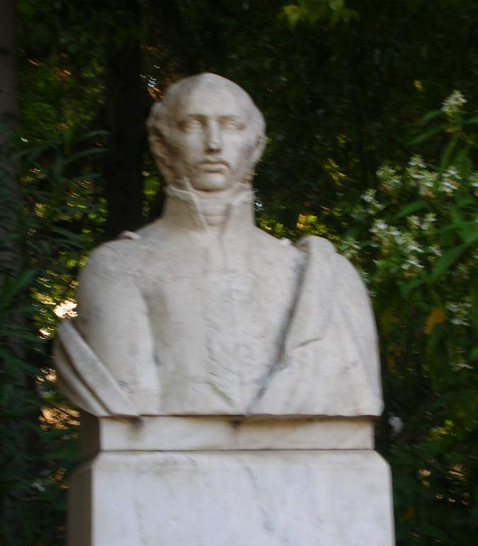 monument of Dimitrios Ipsilantis in Athens, own photo, Gepsimos 15:26, 14 May 2006 (UTC)